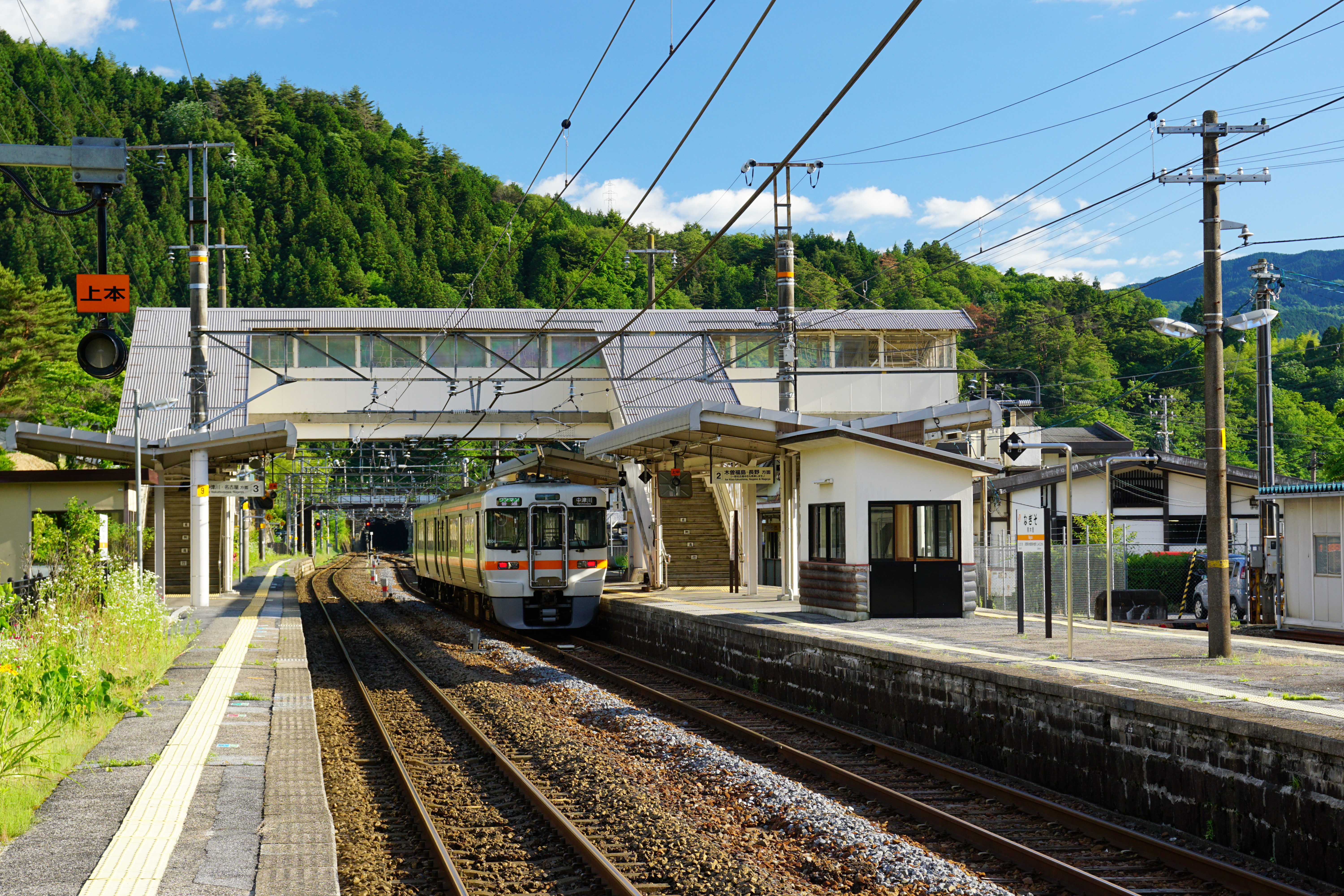 A JR Central 313 series EMU at Nagiso Station on the Chuo Main Line in Nagiso, Nagano, Japan